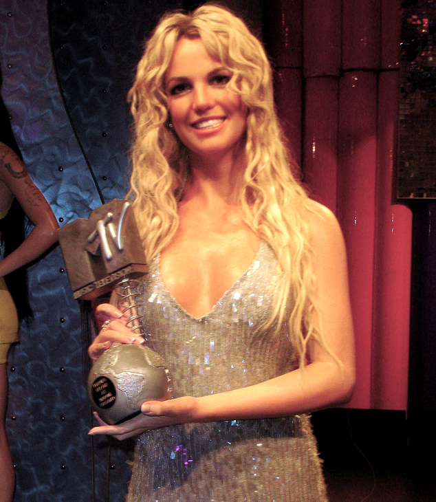 Madame Tussauds London - Britney Spears.